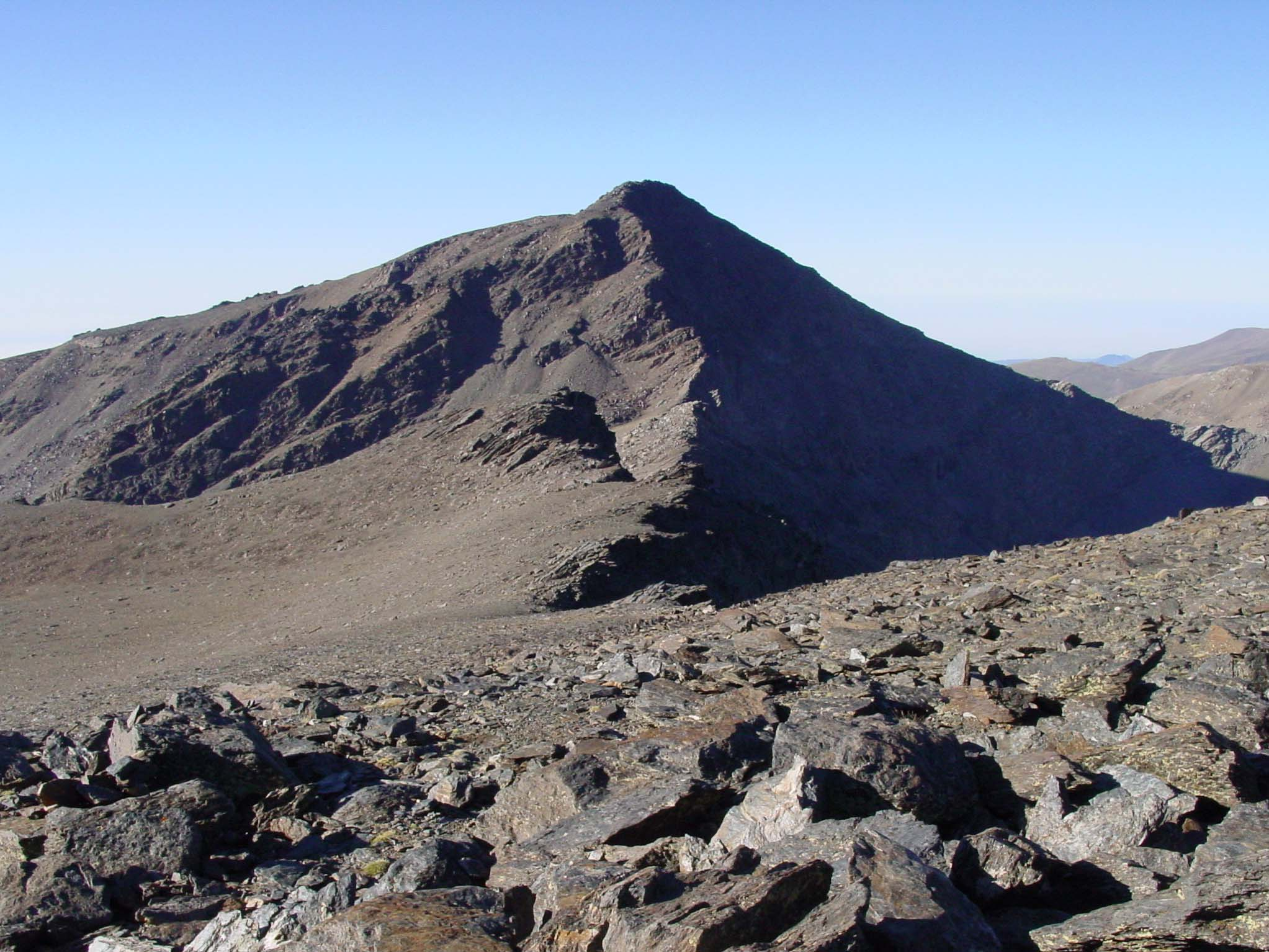 Mulhacén from Alcazaba at about 10 in the morning, Sierra Nevada mountains, Spain